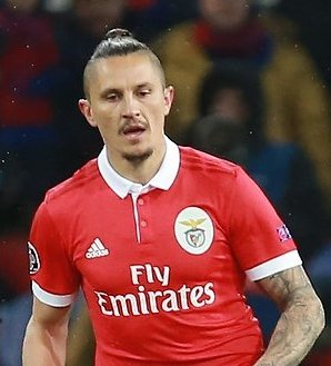 CSKA - Benfica UEFA Champions League 2017/18 (22/11/2017)